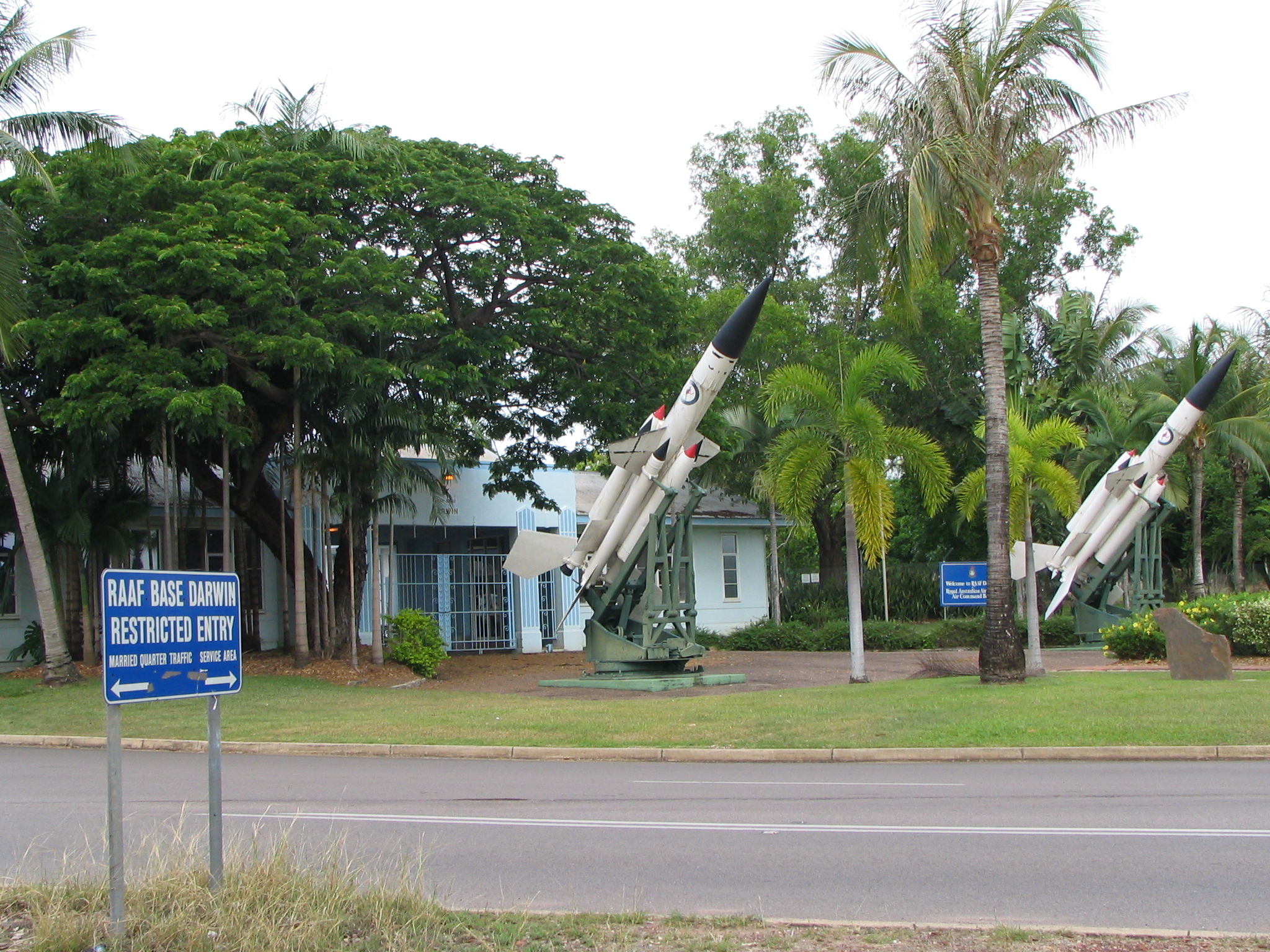 These two deactivated Bloodhound missiles stand silent guard at the former main gate of the Darwin RAAF Base.